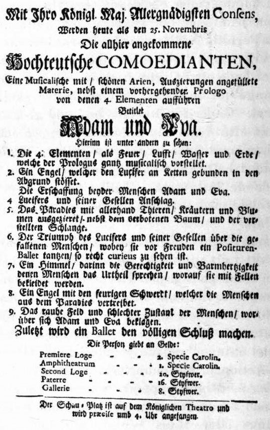 Poster for "Bollhusteatern", Stockholm